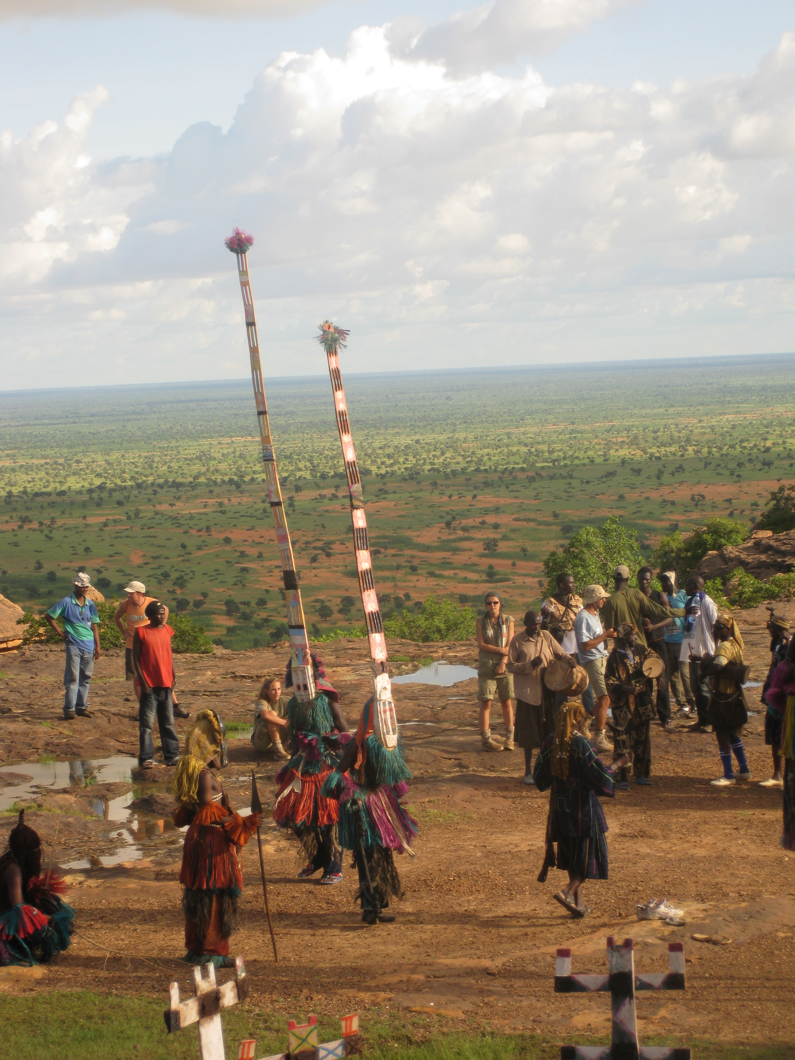 Dogon country, Mali. Dance, mask